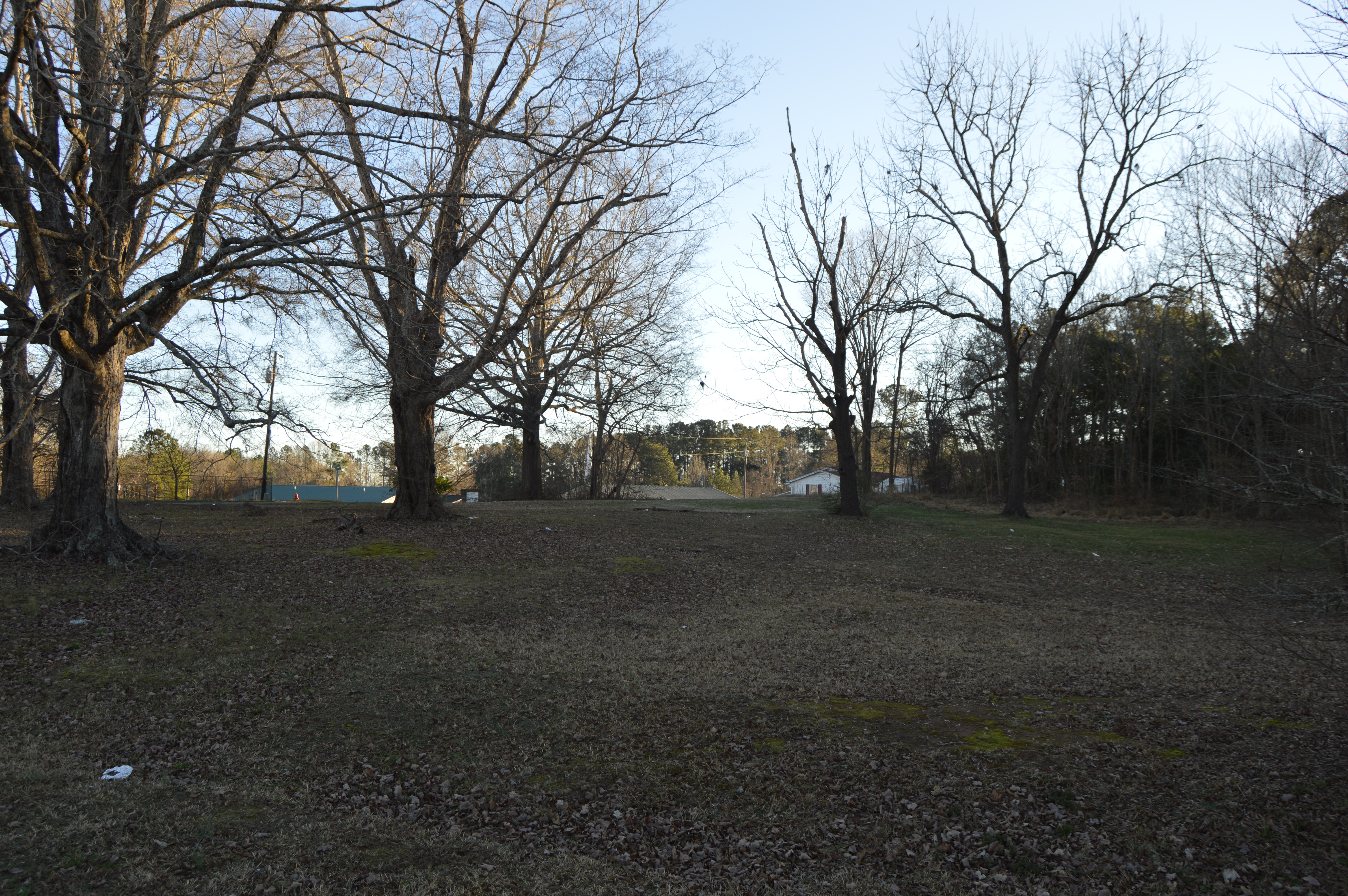 Site of the former Dr. J. A. Savage House, which once sat at 124 College Street in Franklinton, North Carolina, United States. It was listed on the National Register of Historic Places in 1980, and although it was demolished in 1997, it has not yet been removed from the Register.